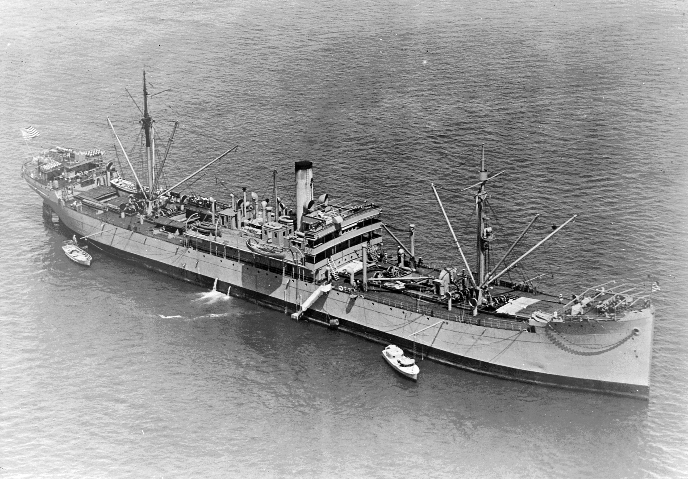 The U.S. Navy freighter (storeship) USS Arctic (AF-7) at anchor on 6 May 1924. Arctic was formerly SS Yambill.